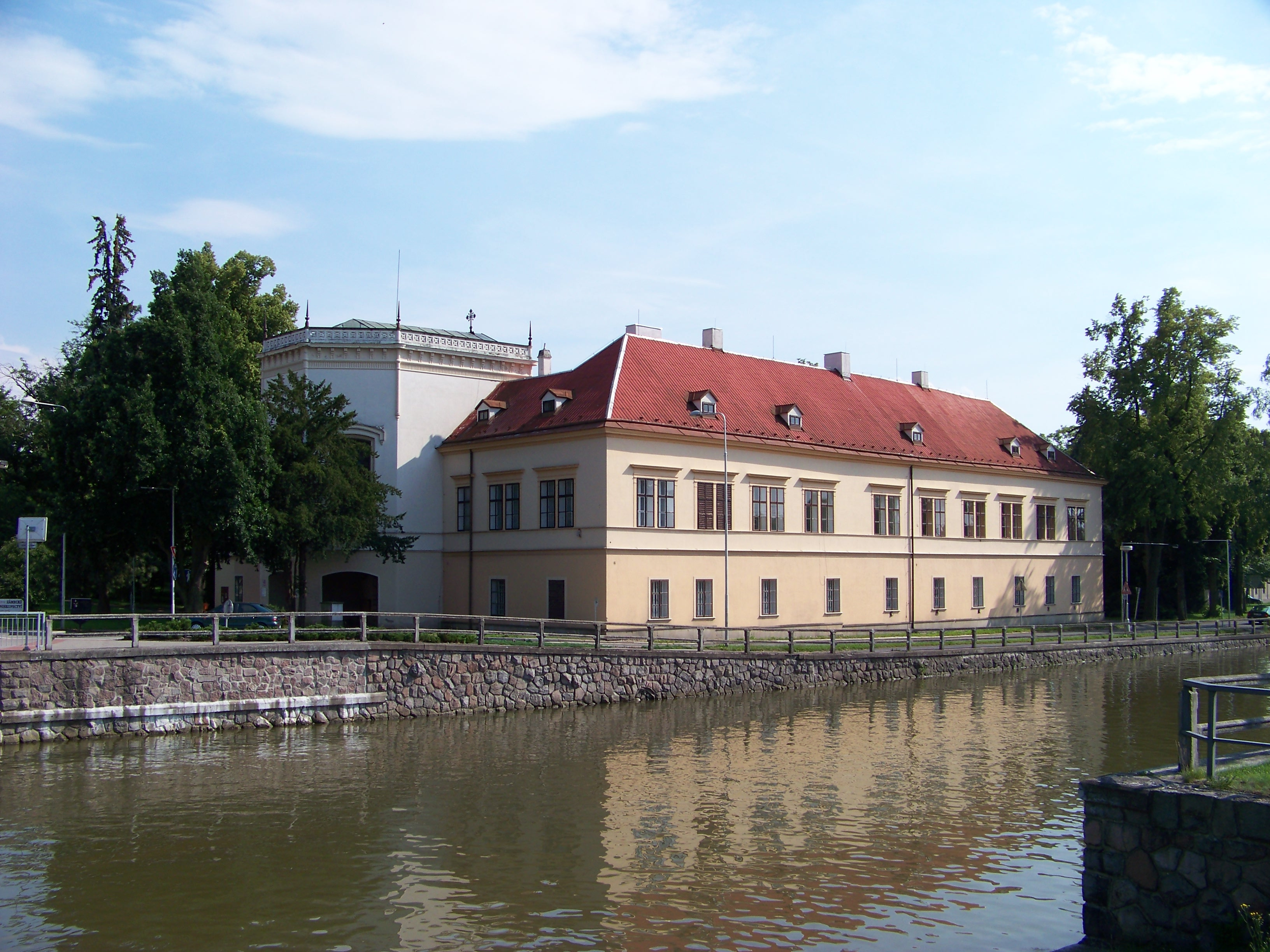 Choceň, Ústí nad Orlicí District, Pardubice Region, the Czech Republic. Tichá Orlice river and the castle.